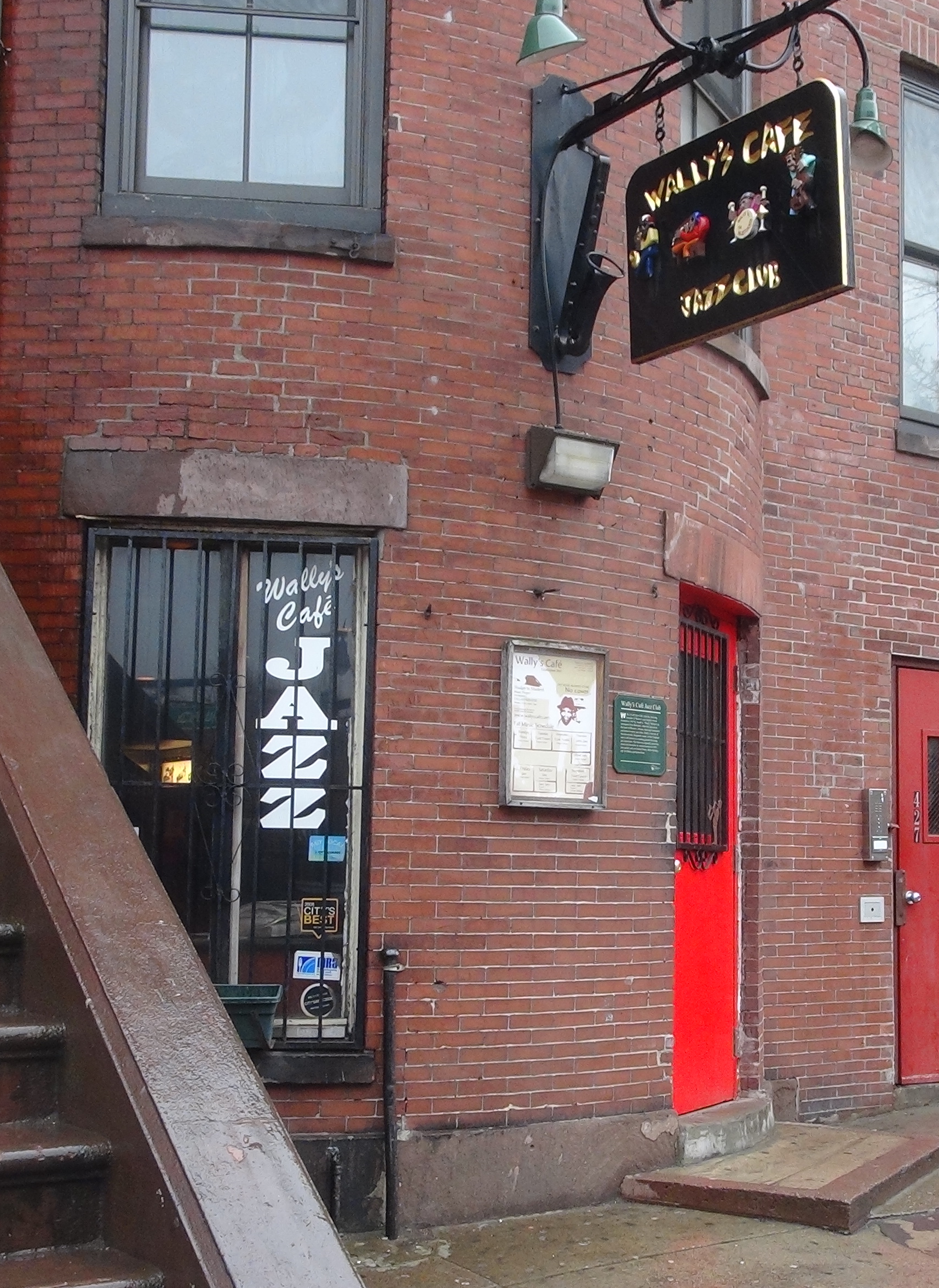 Wally's Cafe in Boston MA